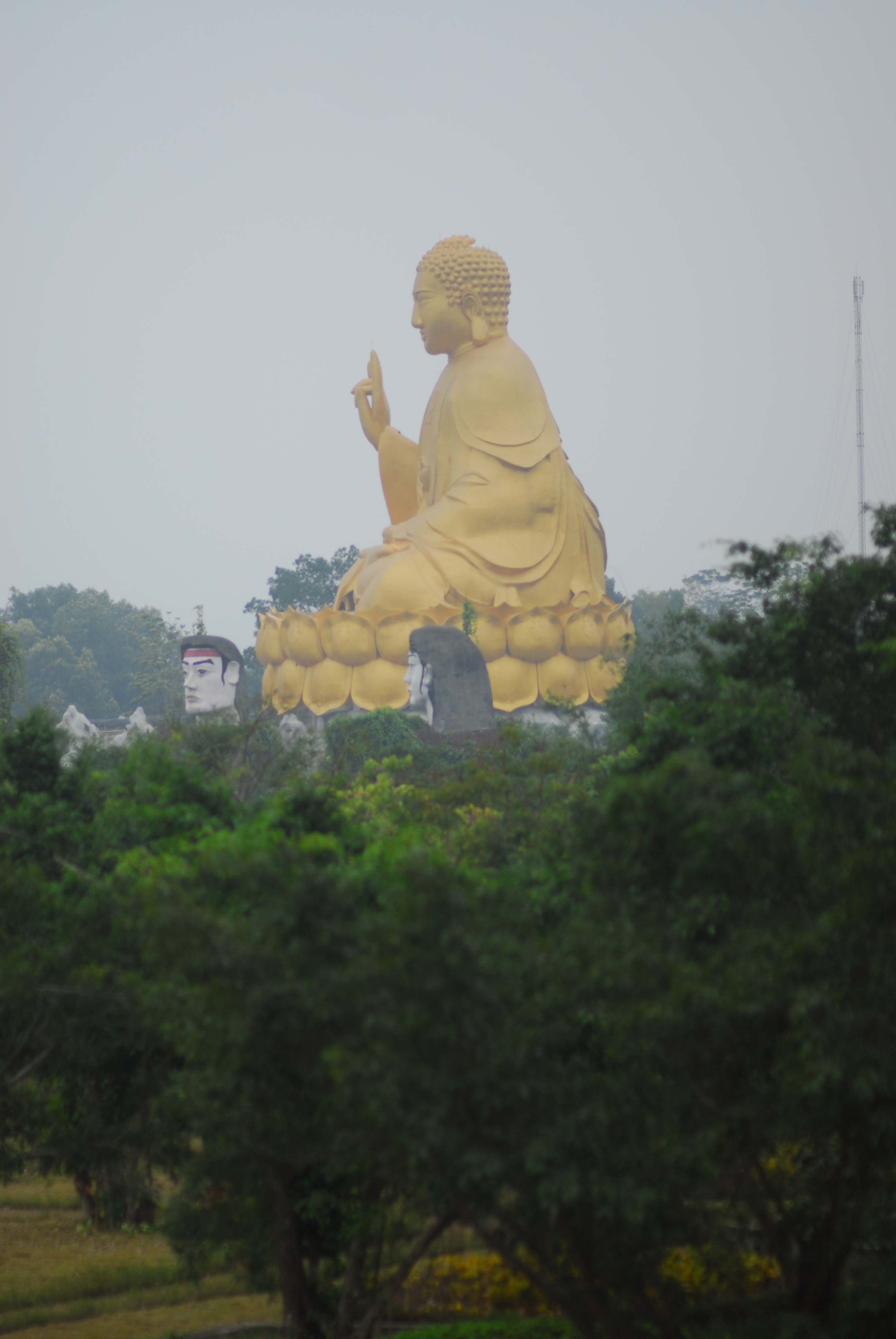 Buddha Statue in Nui Coc Lake Tourist Area, Thai Nguyen, Viet Nam